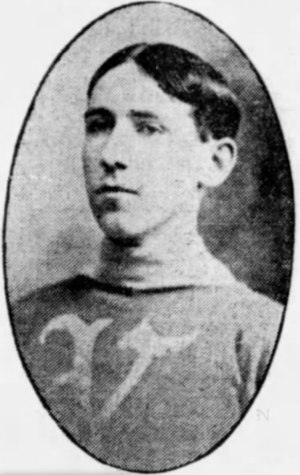 Canadian ice hockey player Bob Harrison, captain of the 1906–07 Ottawa Victorias.